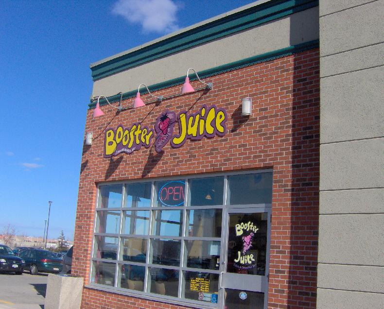 I took this picture of Booster Juice in Ancaster, Ontario. I resized it and it may be out of shape. I took this picture of Booster Juice in Ancaster, Ontario. I resized it and it may be out of shape.